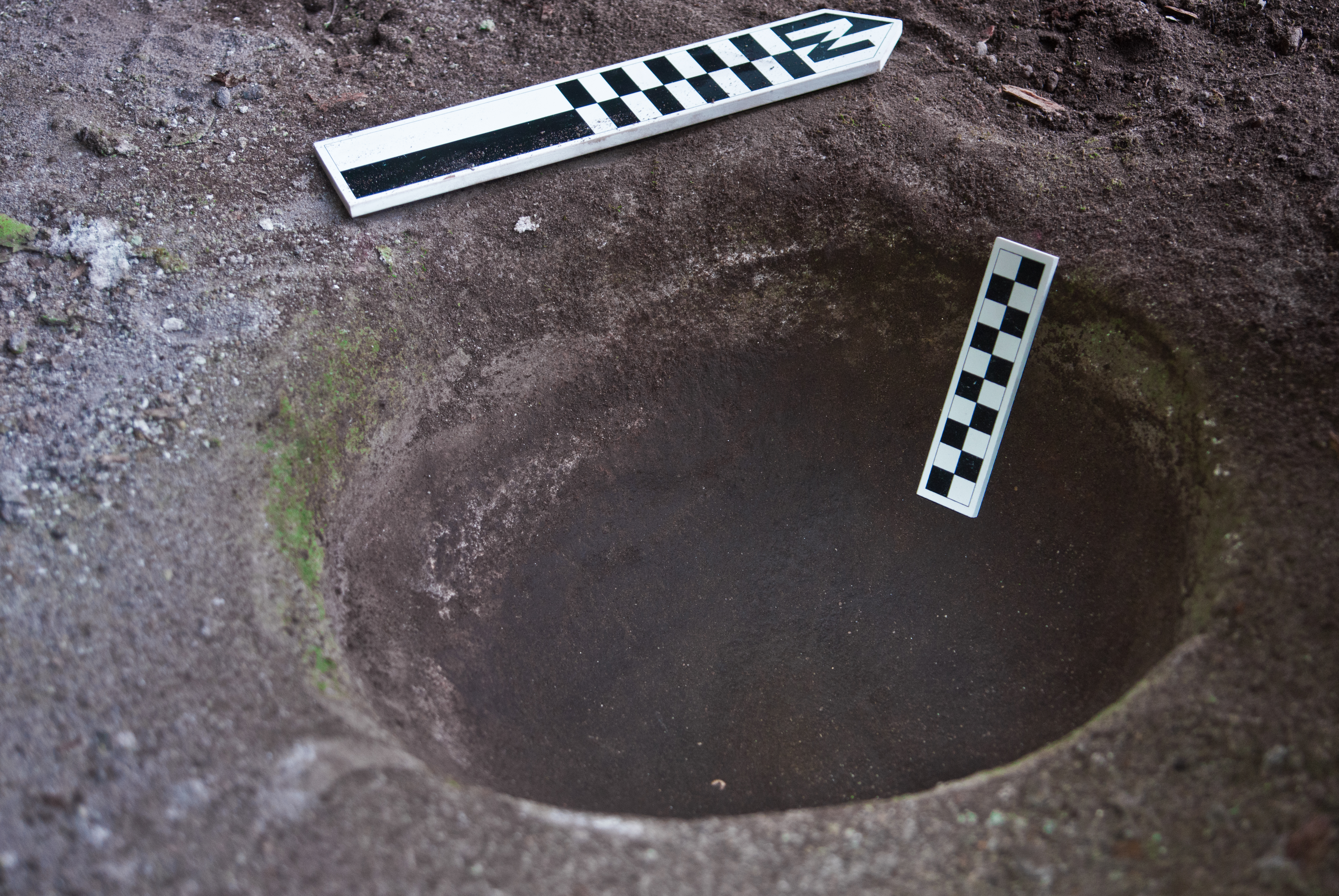 North arrow scale is 25cm; smaller scale is 10cm.